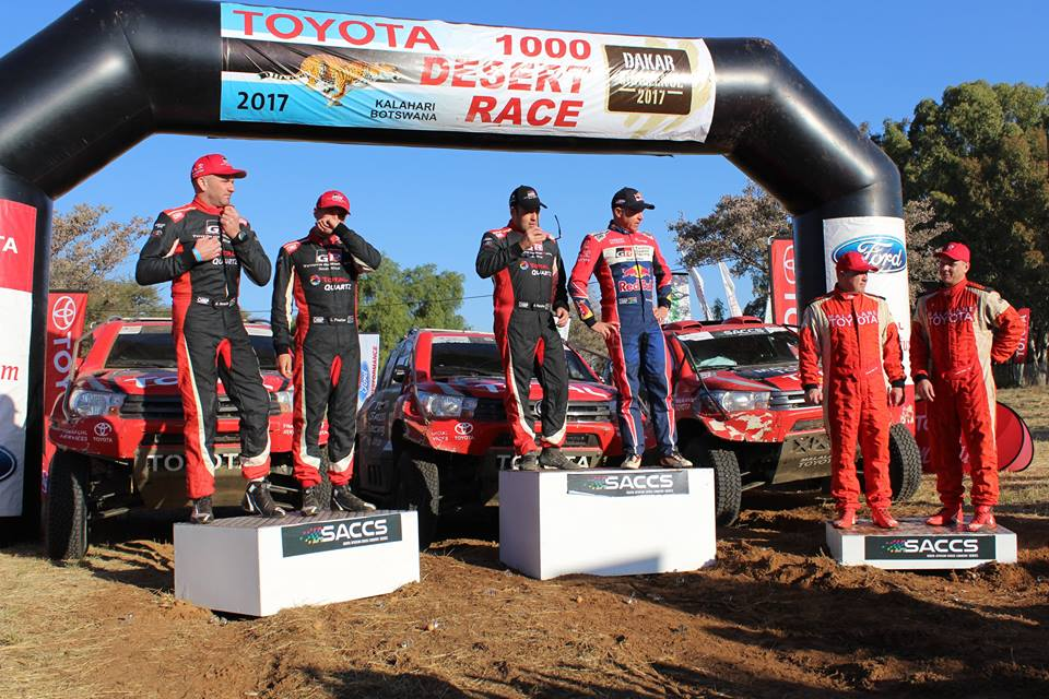 TeamToyota shines at the 2017, Toyota1000DesertRace. Toyota winners at the end of the race, 1. Giniel de Villiers, 2. Leeroy Poulter, 3. Johan Horn